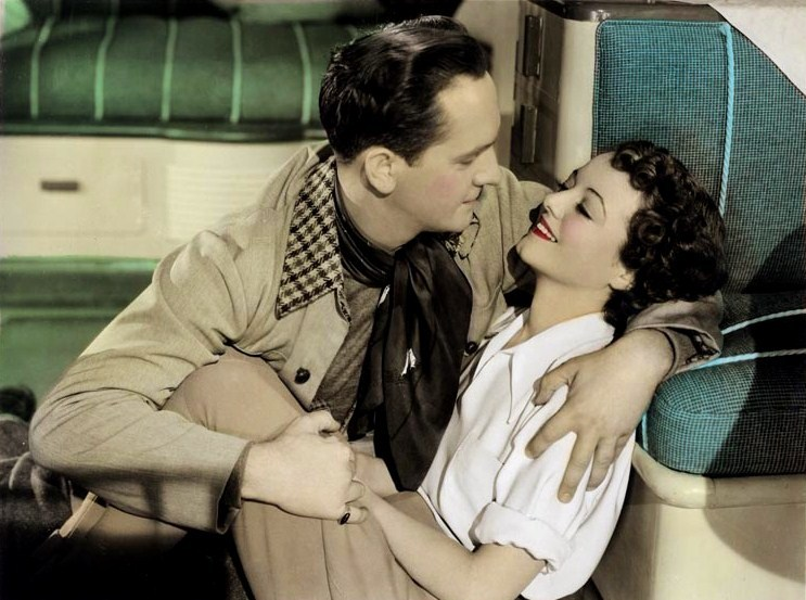 Fredric March and Janet Gaynor in A Star Is Born (1937) - publicity still (cropped).